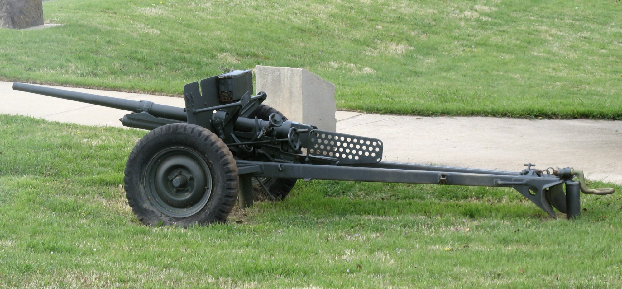 M3 37 mm antitank gun, 45th Infantry Division Museum, Oklahoma City, Oklahoma / 2008